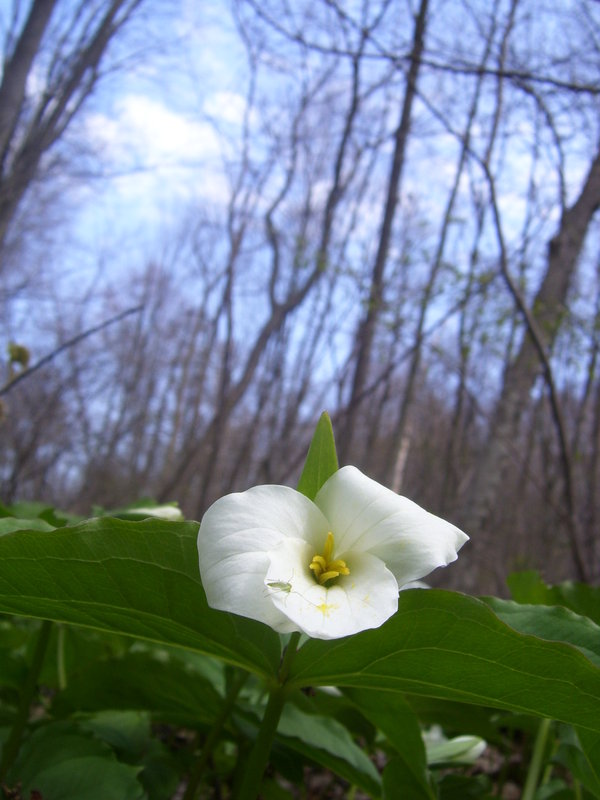 A Trillium grandiflorum on the Al Sabo Preserve in Portage, Michigan.